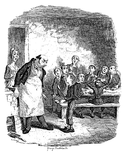 illustration by George Cruikshank from the workhouse scene with Oliver Twist asking for more food